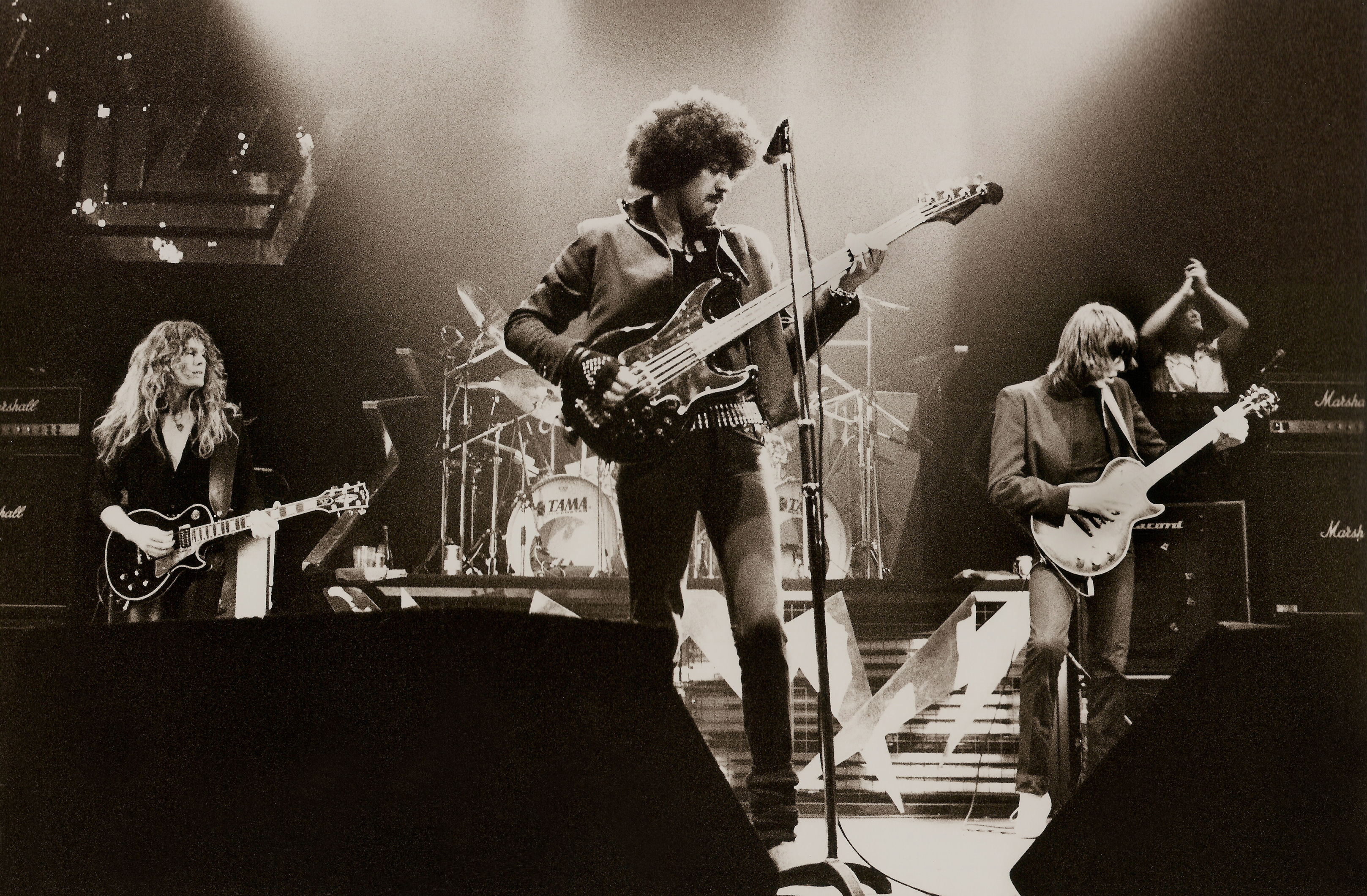 THIN LIZZY - Manchester Apollo - 1983. On the guitars from left: John Sykes, Phil Lynott (bass), Scott Gorham.